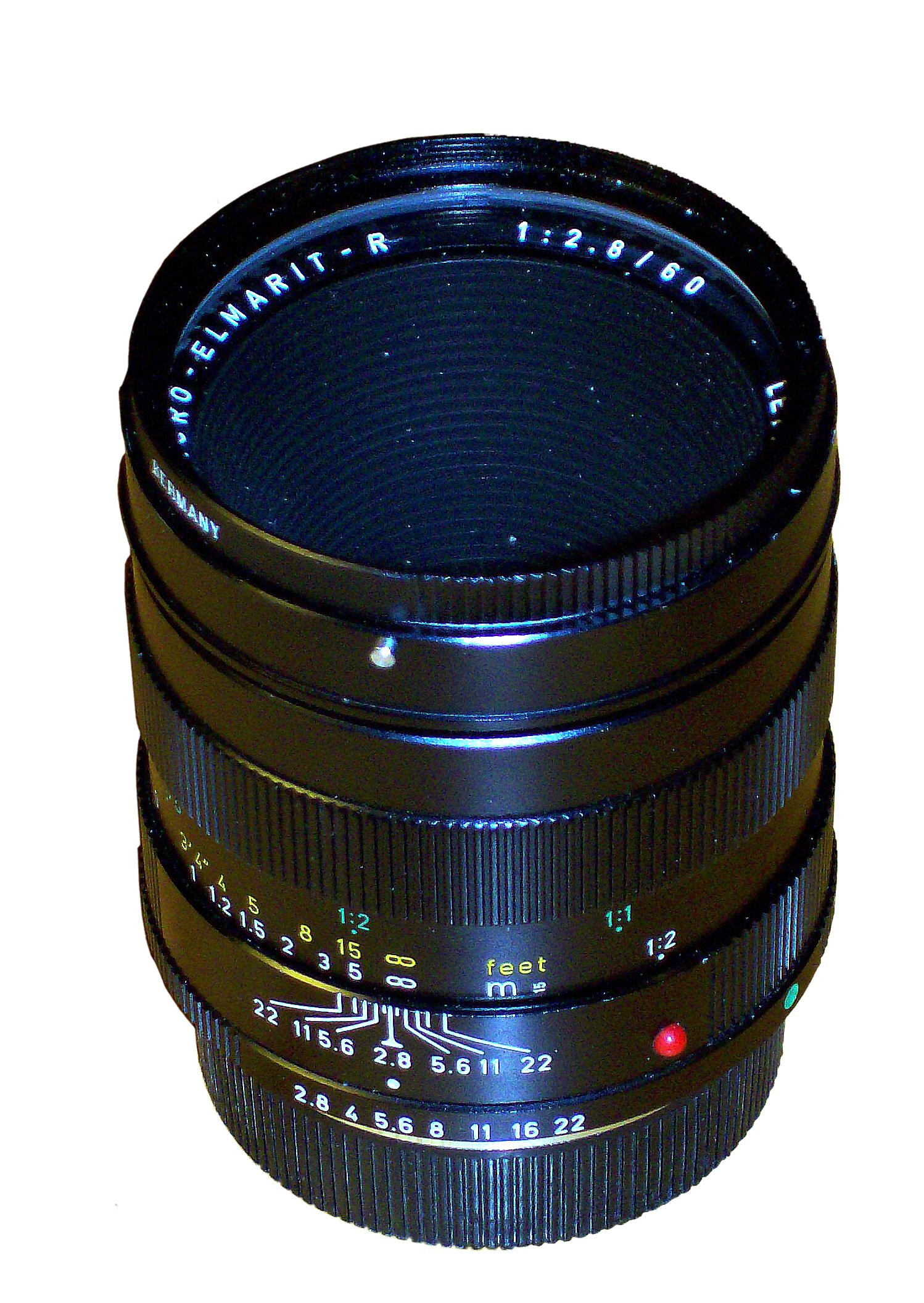 Leica Elmarit R 60mm/2.8 macro lens, designed by Walter Mandler